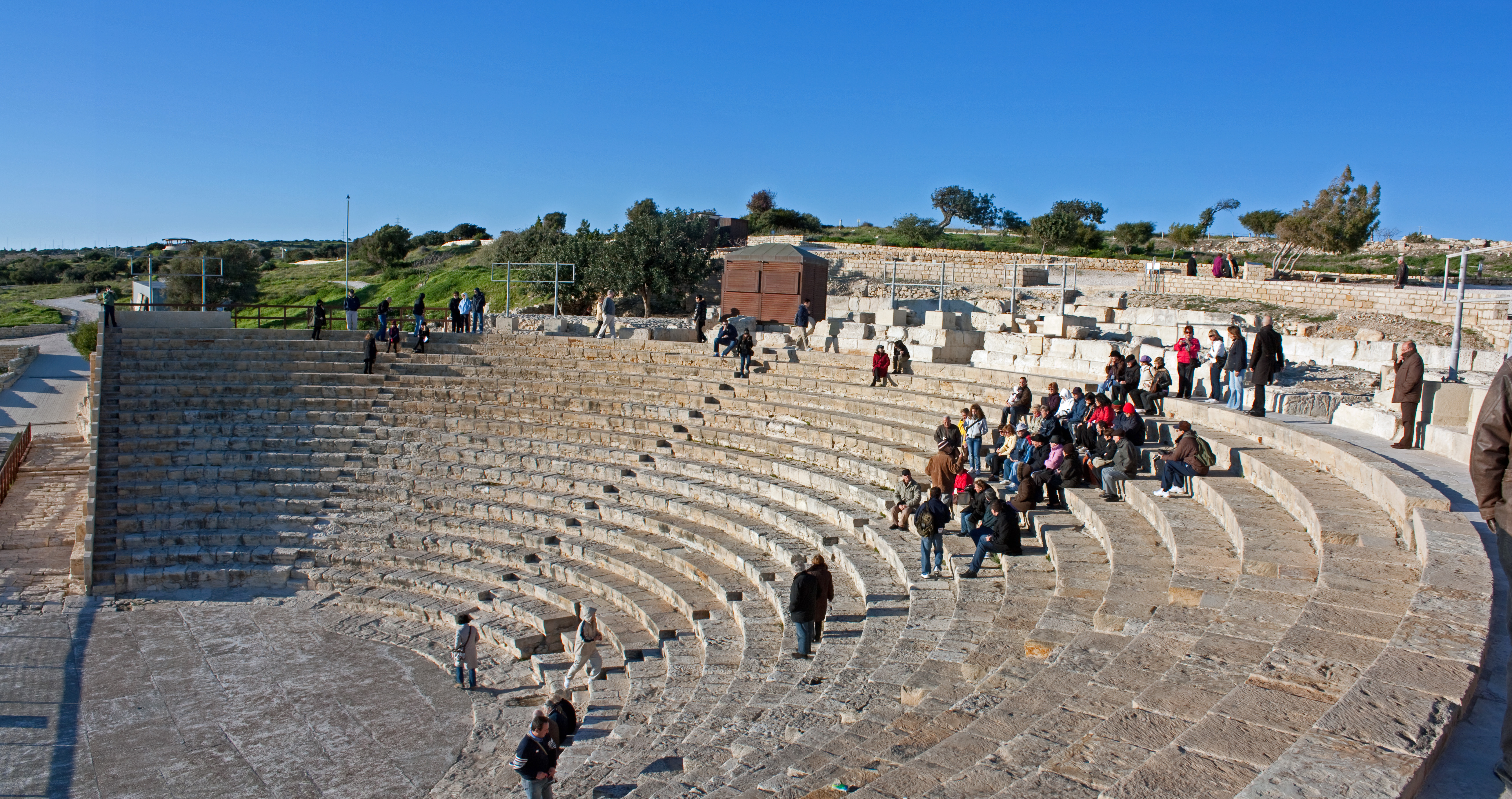 Ancient Roman theatre in Kourion, Cyprus. This panoramic image was created with Photoshop's Photomerge(Stitched images may differ from reality.)